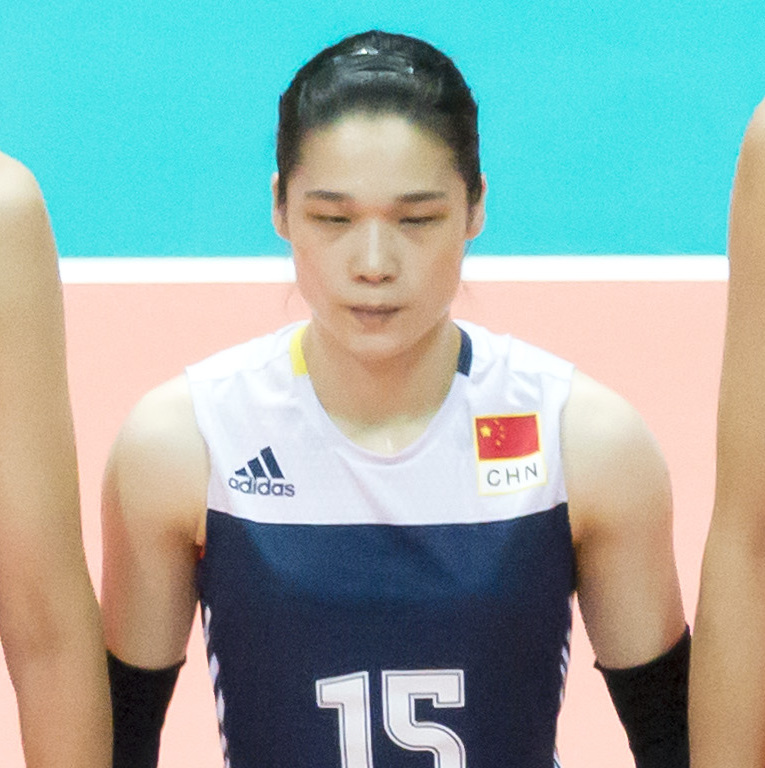 China team 1. XINYUE YUAN袁心玥 2. TING ZHU朱婷 3. JING LI 4. JINGWEN QIAN 5. YI GAO高意 6. XIANGYU GONG龚翔宇 8. DI YAO 姚廸 10. XIAOTONG LIU刘晓彤 12. YIXIN ZHENG 15. LI LIN林莉 16. XIA DING丁霞 17. YUANYUAN WANG 18. MENGJIE WANG 21. YUNLU WANG